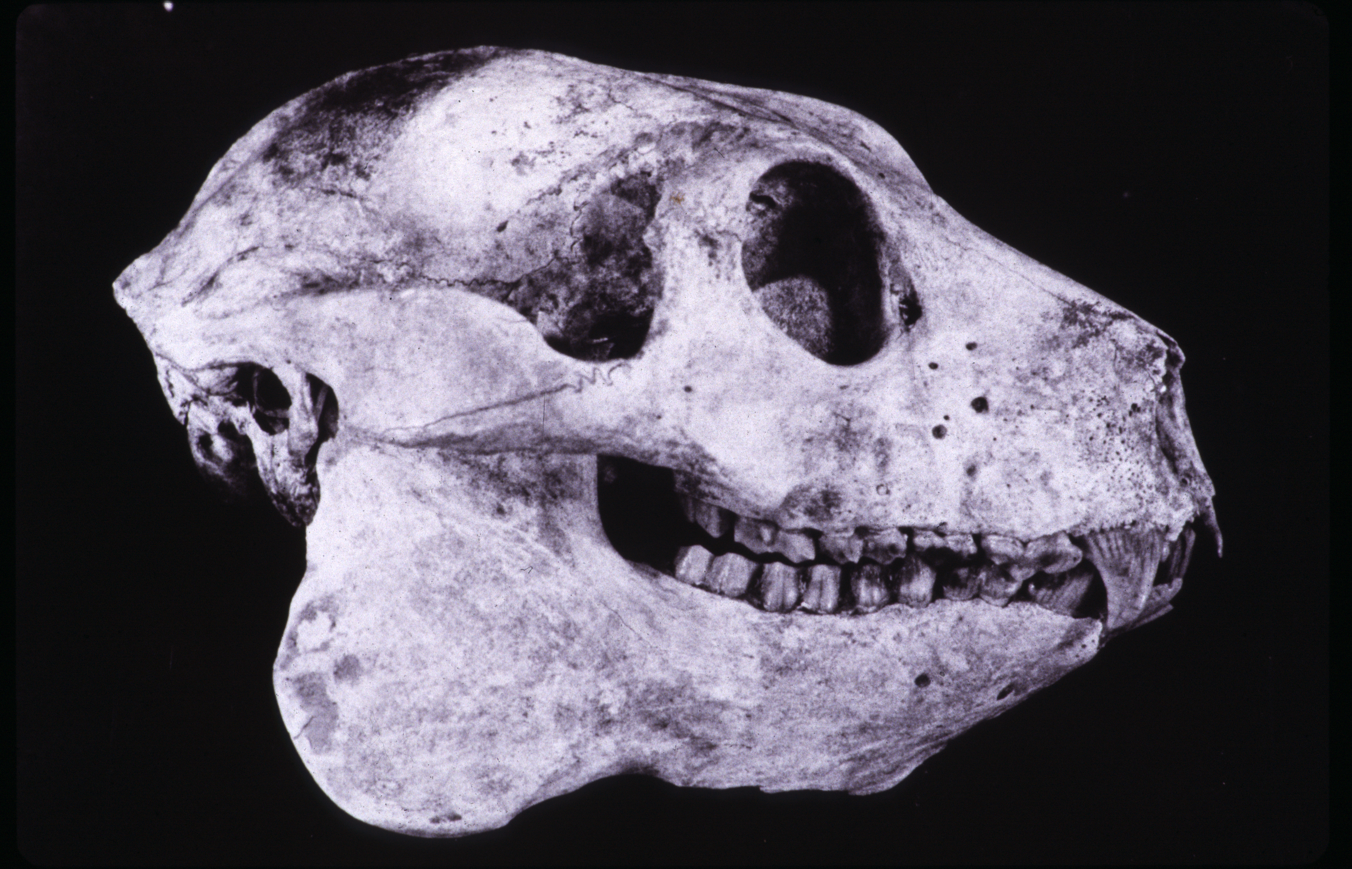 Skull of the extinct sloth lemur, Babakotia radofilai